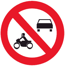 Diagram of road signs of Luxembourg